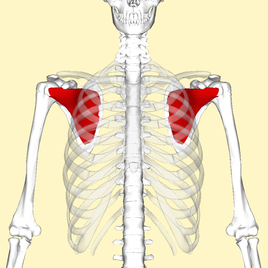 Subscapularis muscle. Bones around the muscle are shown in semi-transpaent.